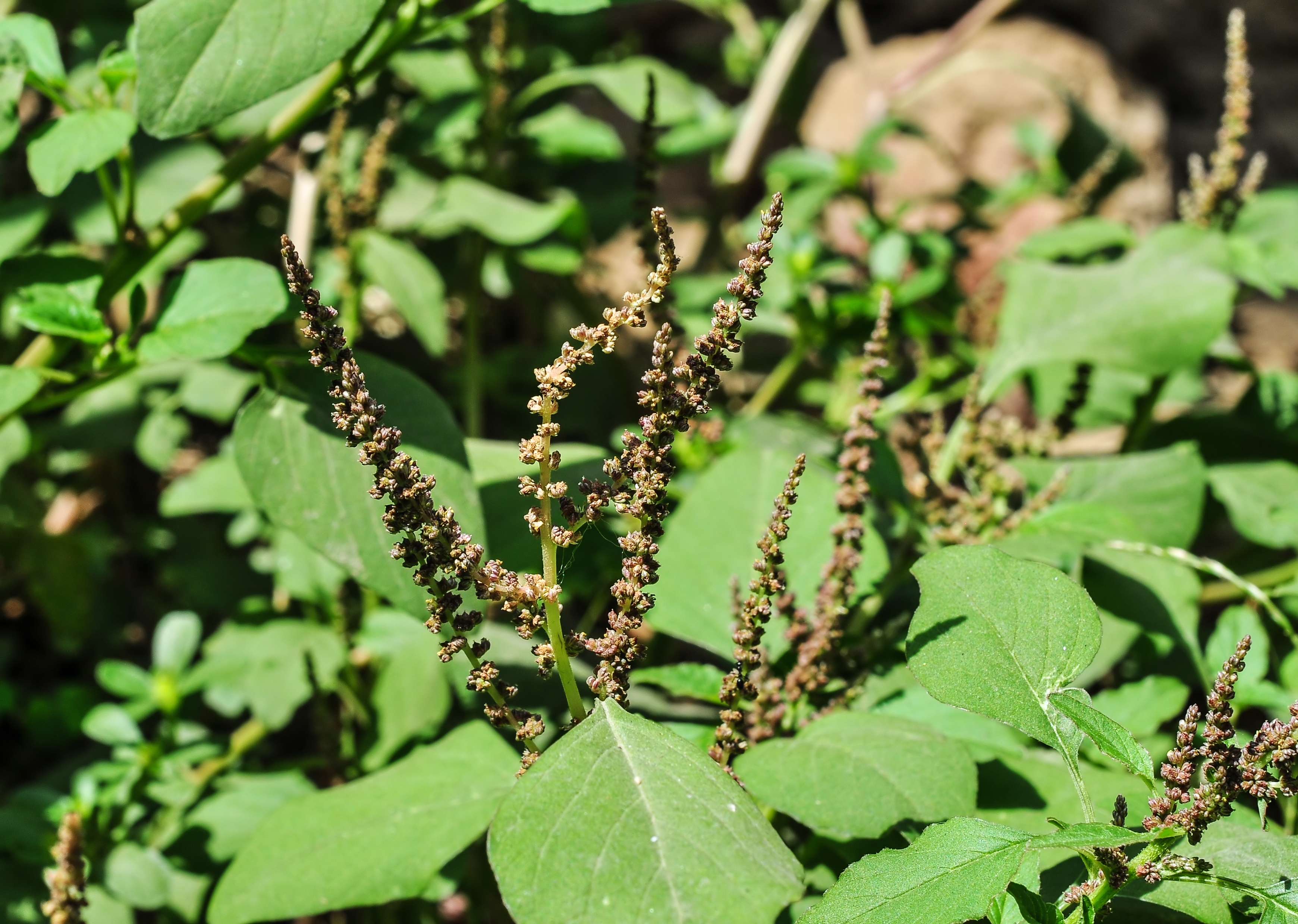 Amaranthus viridis flower. Photographed at Burdwan, West Bengal, India.